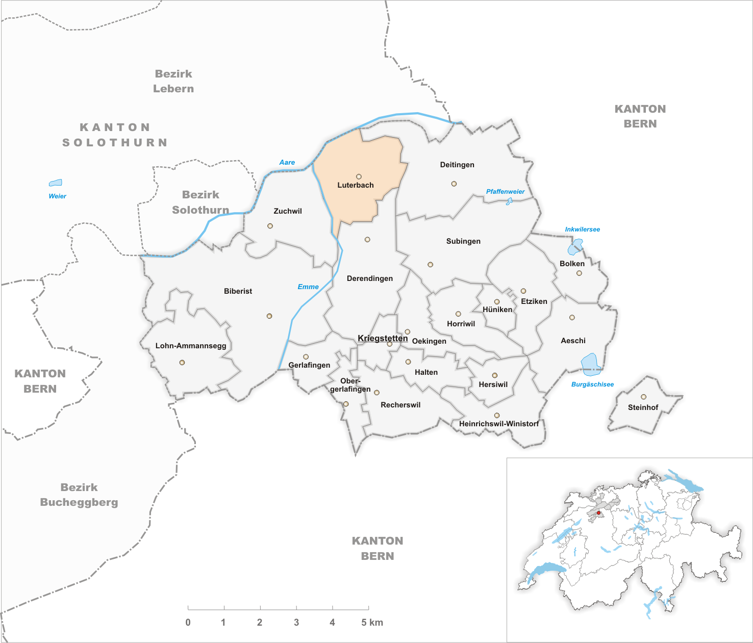 Municipality Luterbach